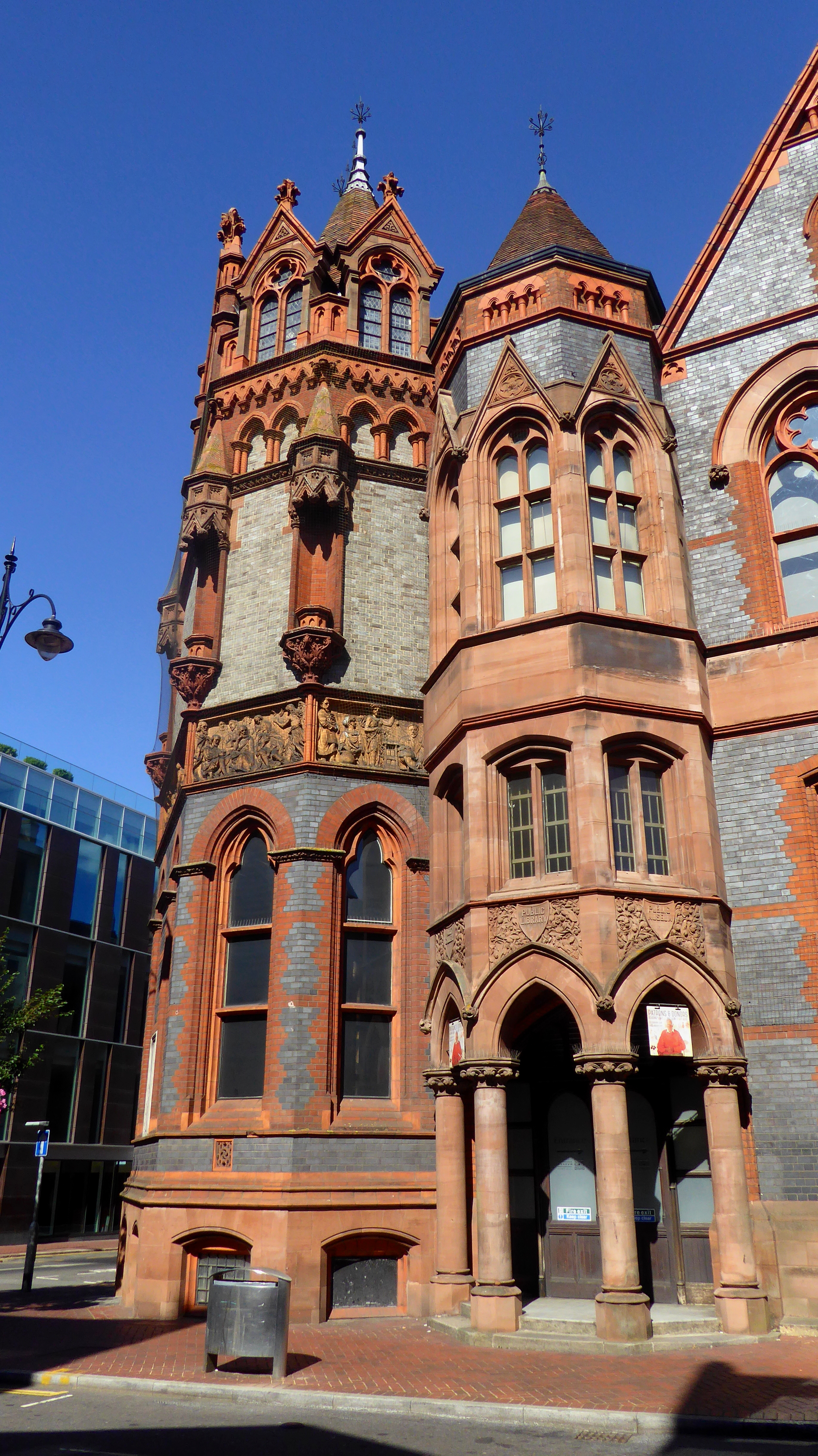 The north-west corner of Reading Town Hall, as seen from Blagrave Street.